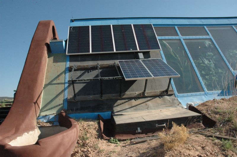 2008_06_22-EarthShip SolShip-040